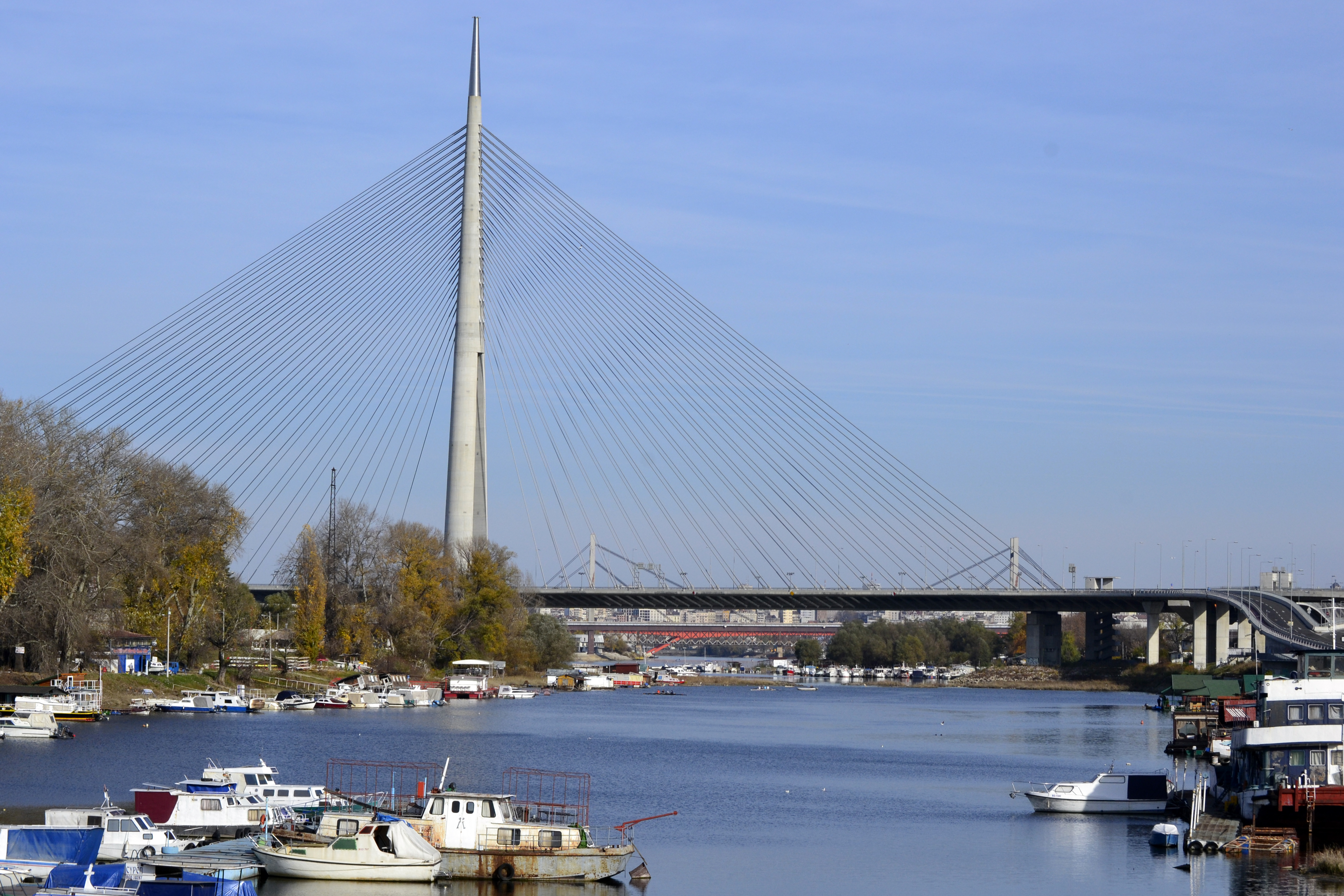 Ada Bridge - a view from the right river bank (Belgrade, Serbia) Srpski (latinica): Most na Adi, pogled sa desne obale